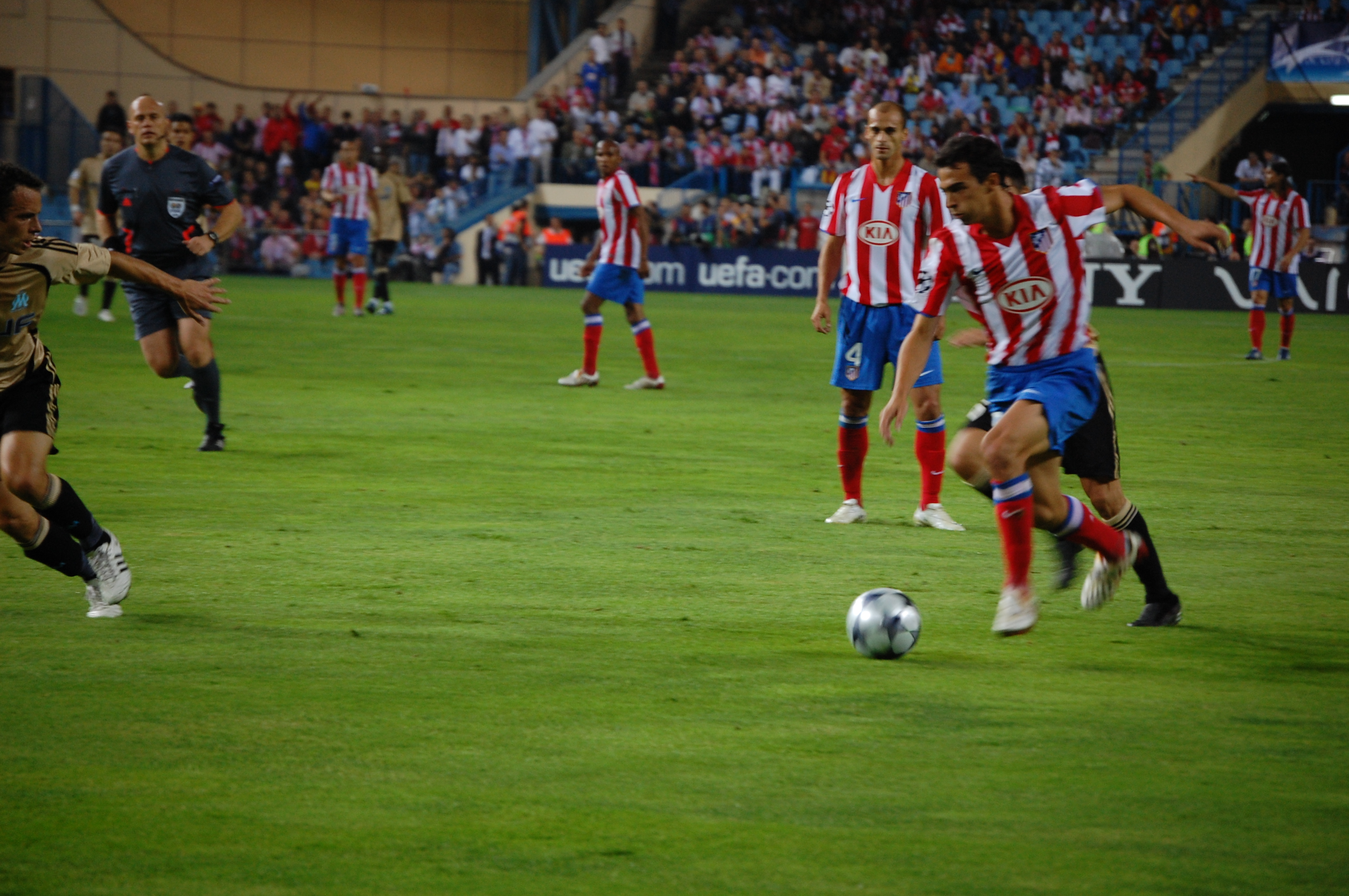 Miguel De las Cuevas with the ball in a Champions match Atletico de Madrid vs. Olympique de Marsella